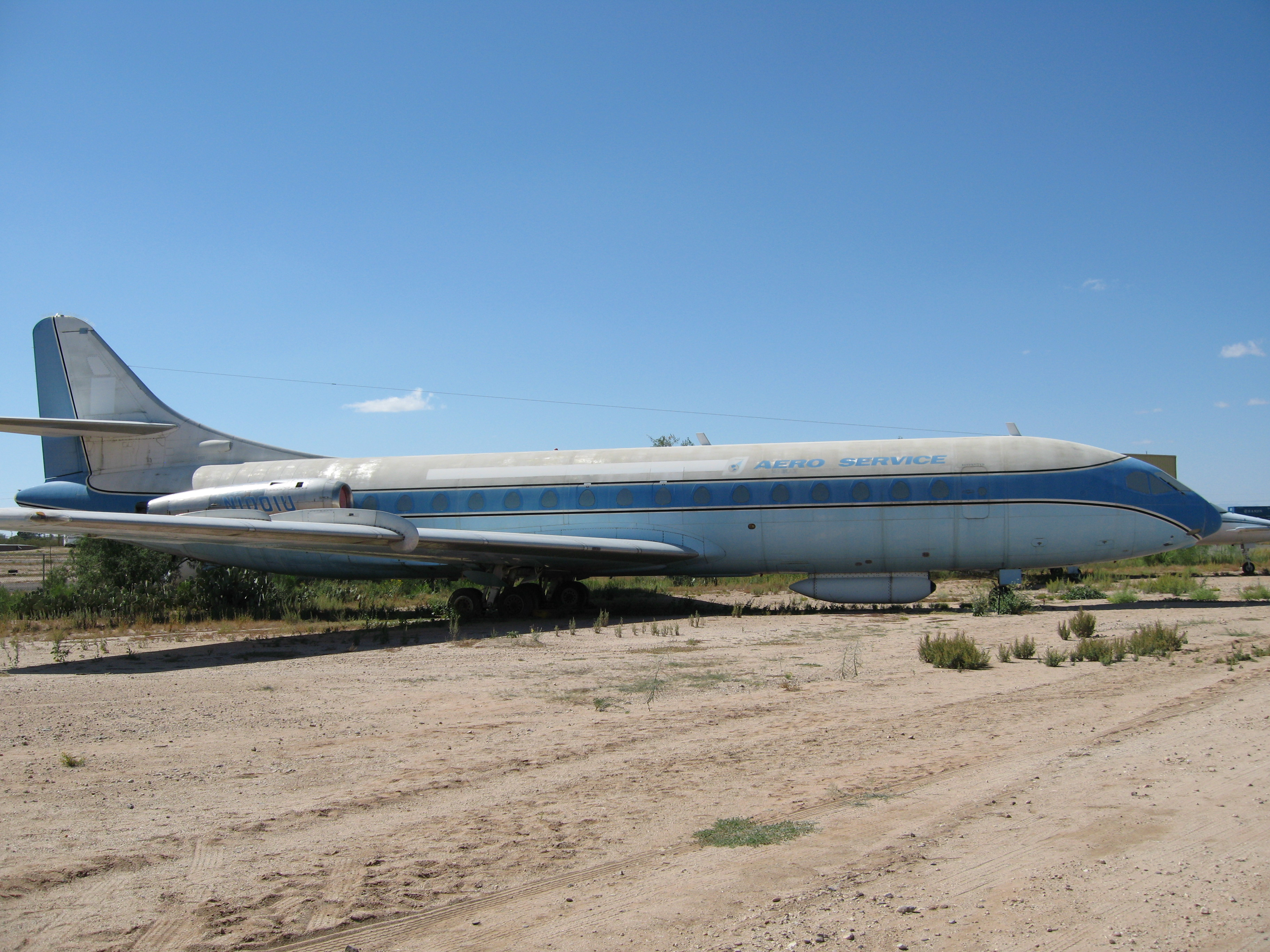 Sud Aviation Caravelle at Pima Air & Space Museum